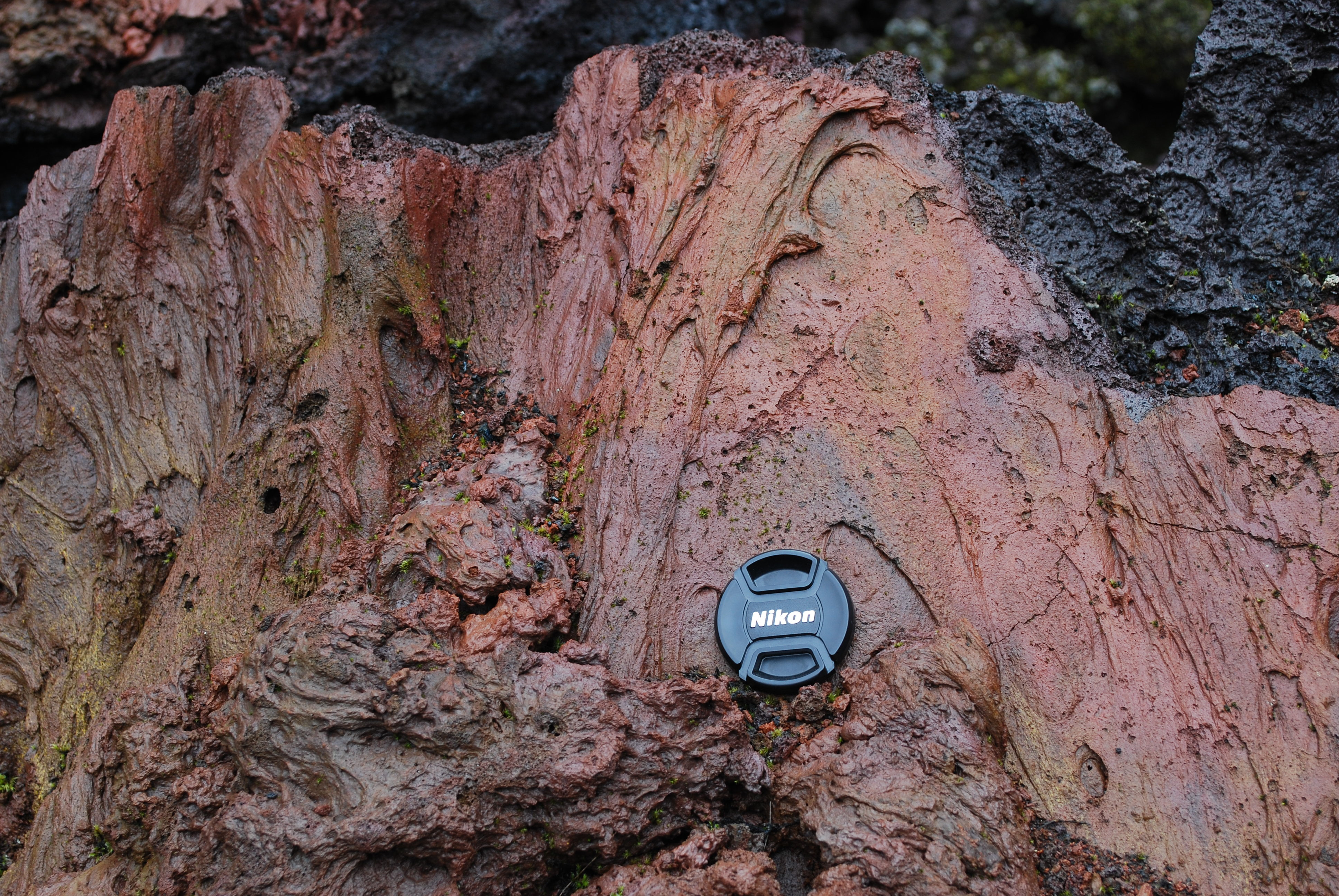 Sight to the basaltic lava in Laki volcano, Iceland